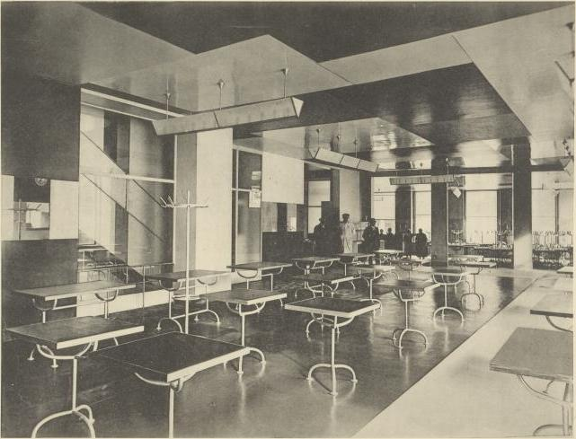 Café-restaurant, Aubette, Strasbourg. 1928 (?). Photo. From Boutiques et magasins ([1929]): pl. 39.